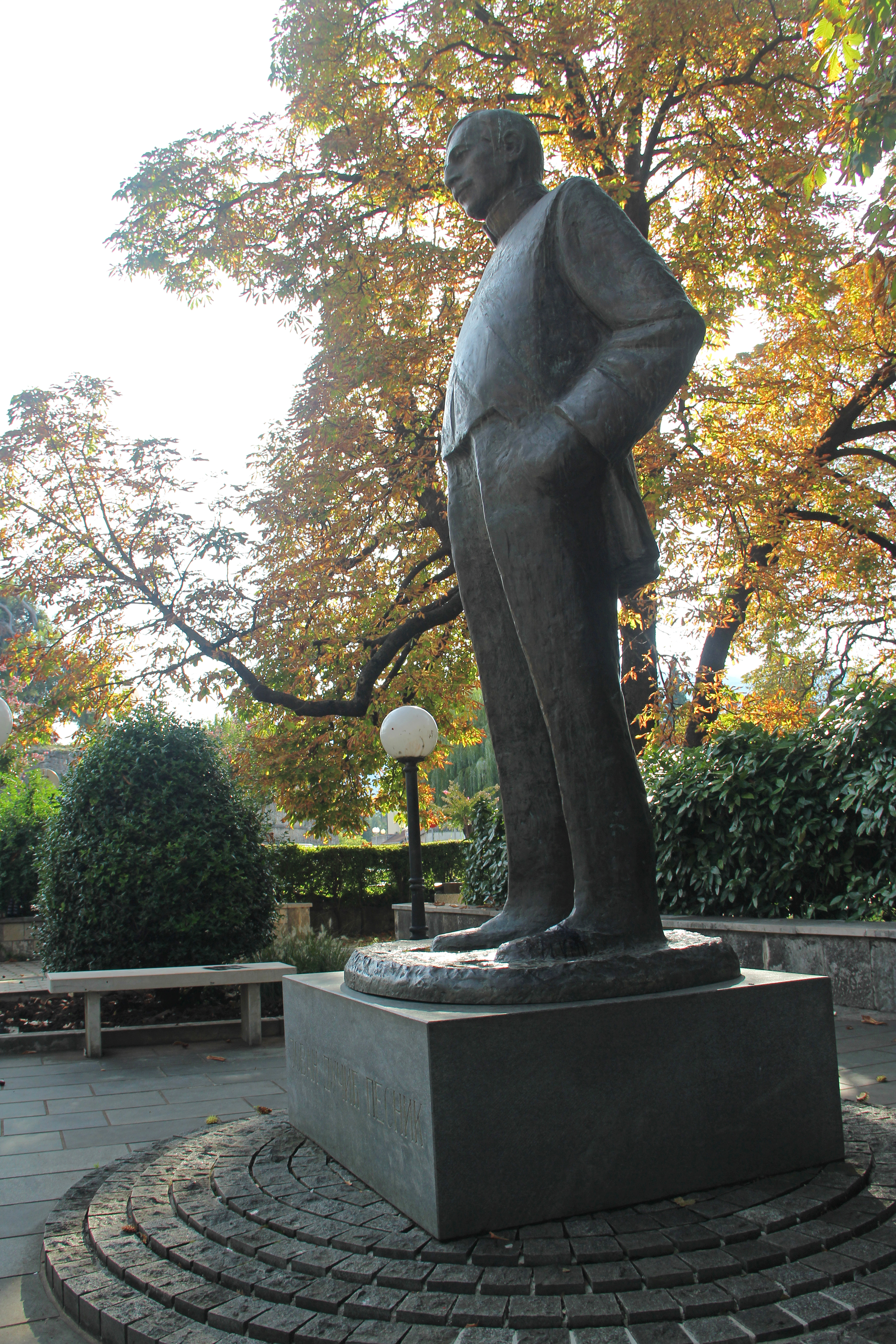 Monument of a poet Jovan Ducic in Trebinje